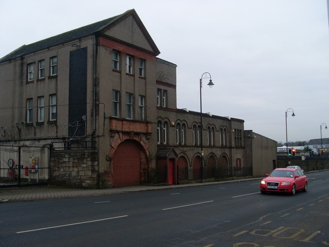 Buildings on Dalmarnock Road Just south of the Dalmarnock Bridge.